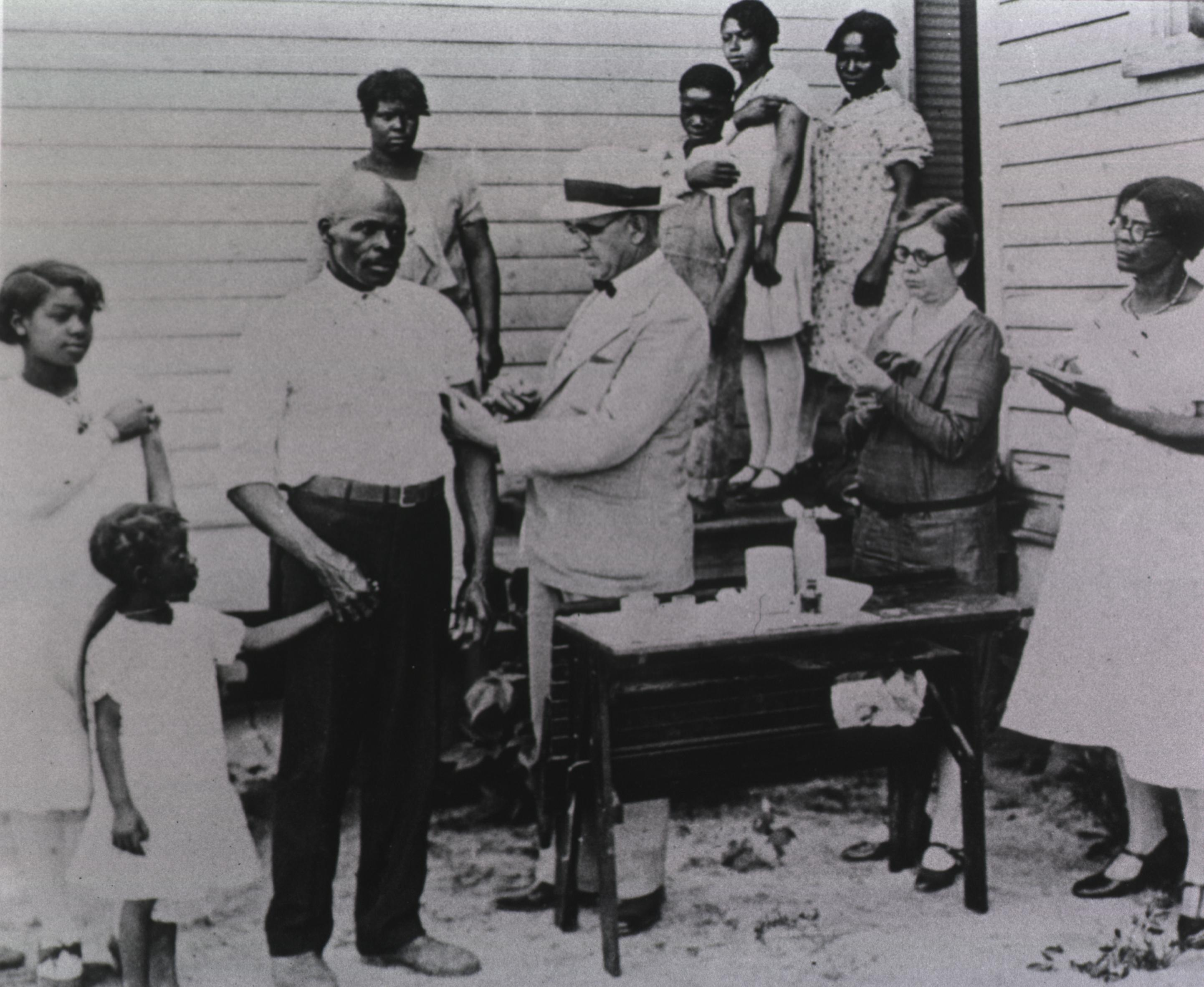 Publication: [United States : s.n., 1930?] Language(s): English Format: Still image Subject(s): Typhoid Fever -- prevention & control Rural Health Services African Americans Rural Population Genre(s): Pictorial Works Abstract: A family stands in front of a building. A physician inoculates the father, while the other family members watch and prepare their own upper arms for the procedure. Exhibition: Exhibited: "Images from the History of the Public Health Service," organized by Ronald J. Kostraba, Parklawn Conference Center, 1989. Extent: 1 photographic print : 22 x 26 cm. Technique: black and white NLM Unique ID: 101447746 NLM Image ID: A019990 Permanent Link